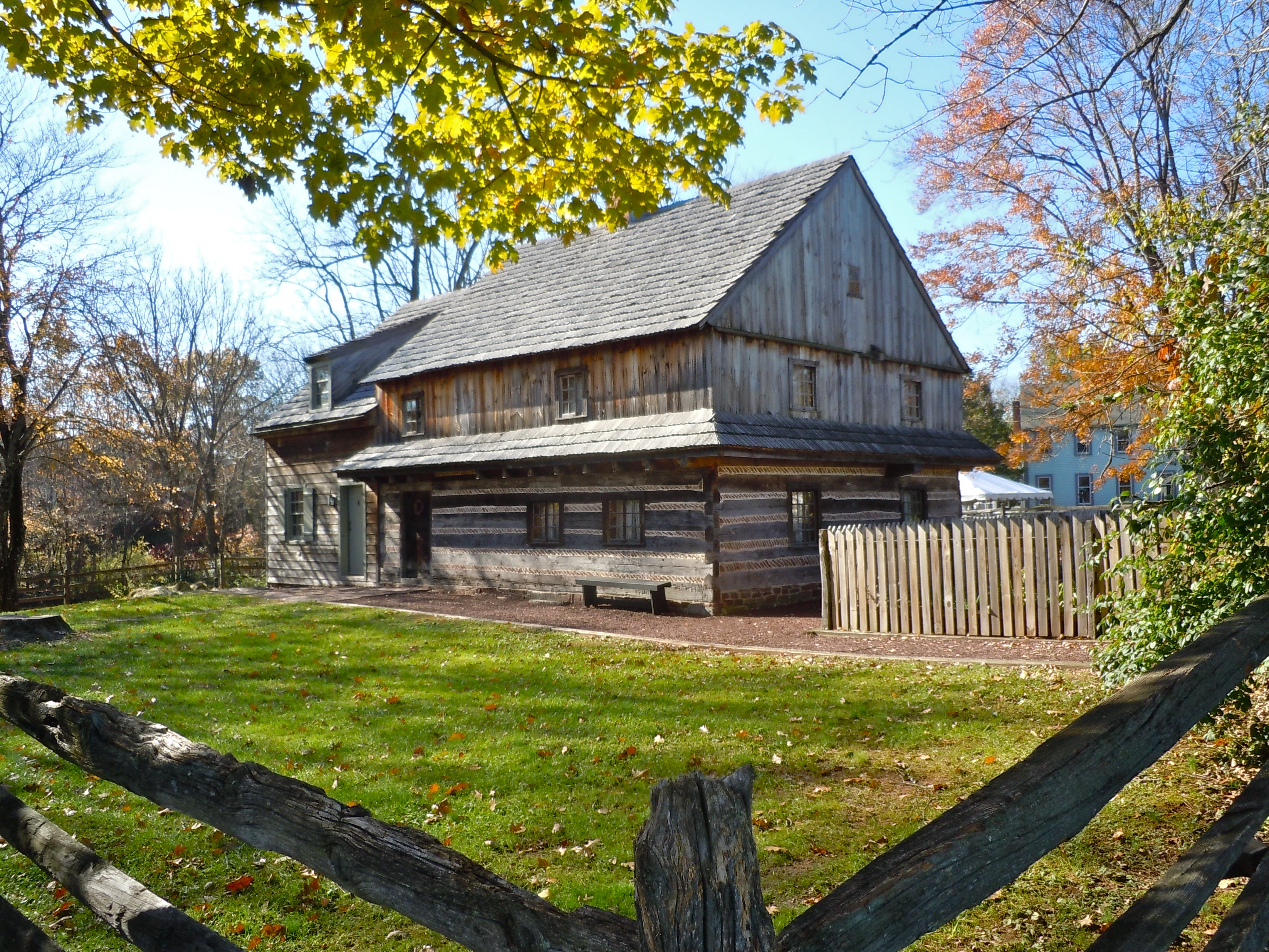 Edward Morgan Log House on the NRHP since May 17, 1973. Off Pennsylvania Route 363 on Weikel Road, Kulpsville, Montgomery County, Pennsylvania. The Quaker grandparents of Daniel Boone lived there.